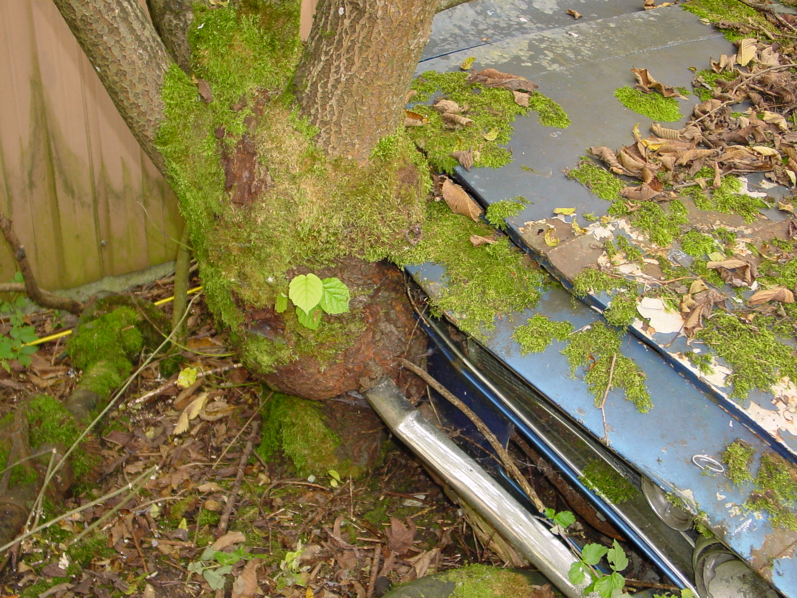 Object at the carjunk in Kaufdorf (Guerbetal) (Switzerland) Cars hidden in the forest. Car and tree grown together.